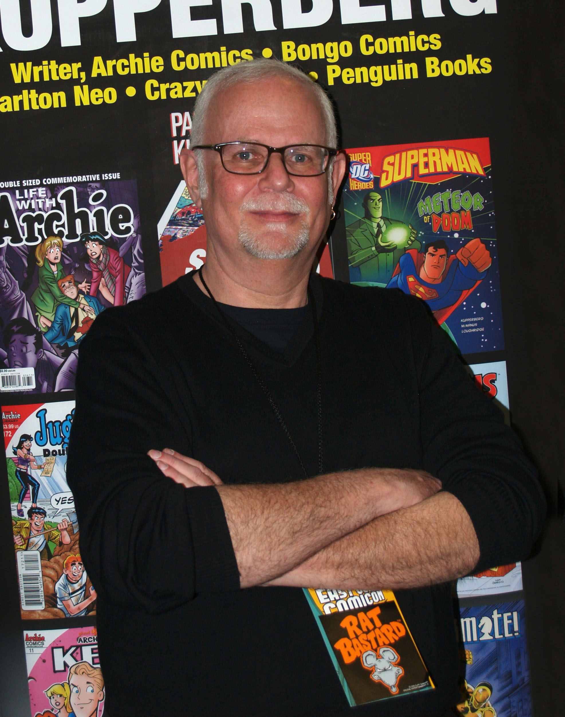 Comics writer/editor Paul Kupperberg at the Meadowlands Exposition Center in Secaucus, New Jersey on April 11, 2015, Day 1 of the 2015 East Coast Comicon. This photo was created by Luigi Novi. It is not in the public domain, and use of this file outside of the licensing terms is a copyright violation.